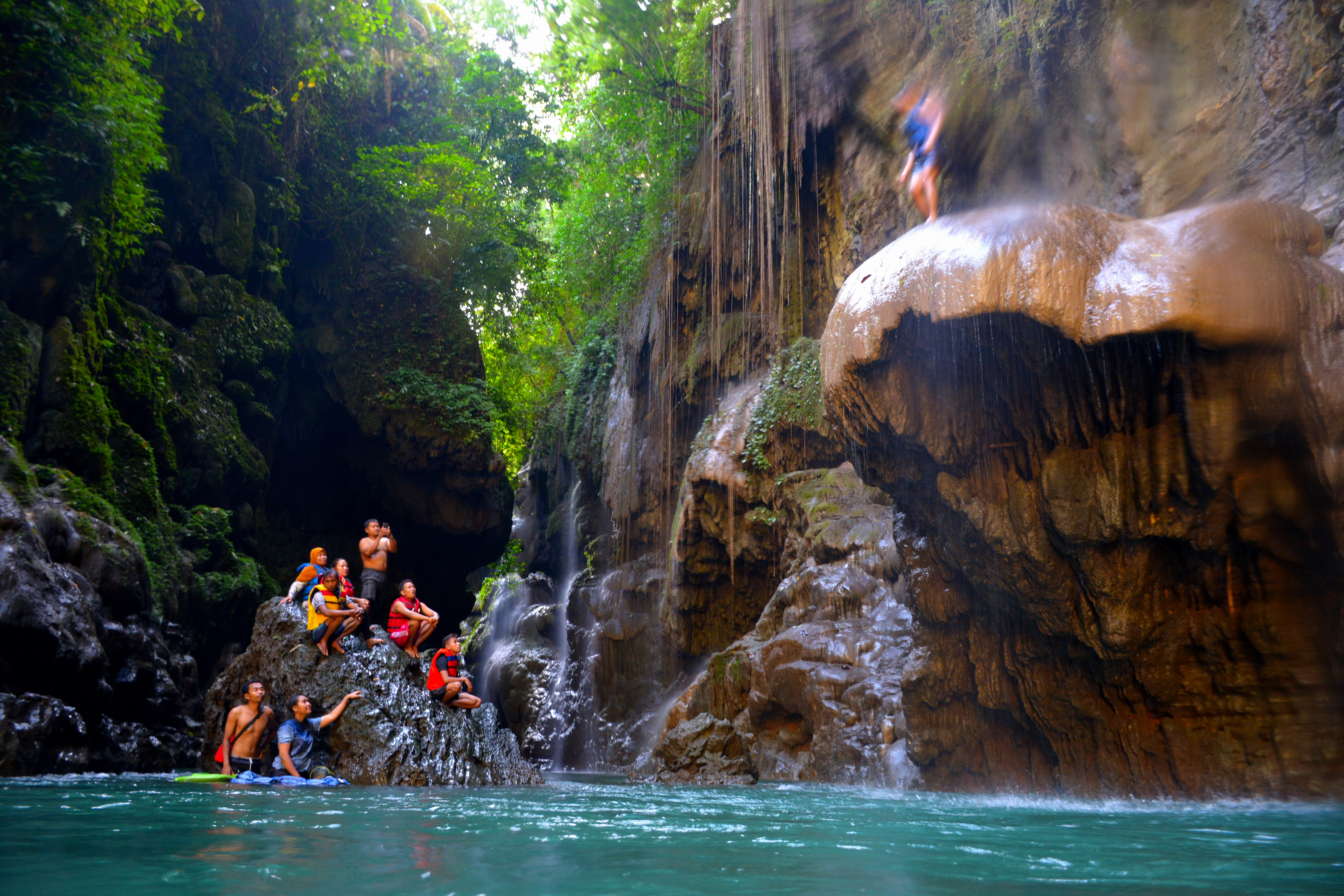 A man attempted to jump from above the mushroom shaped rock